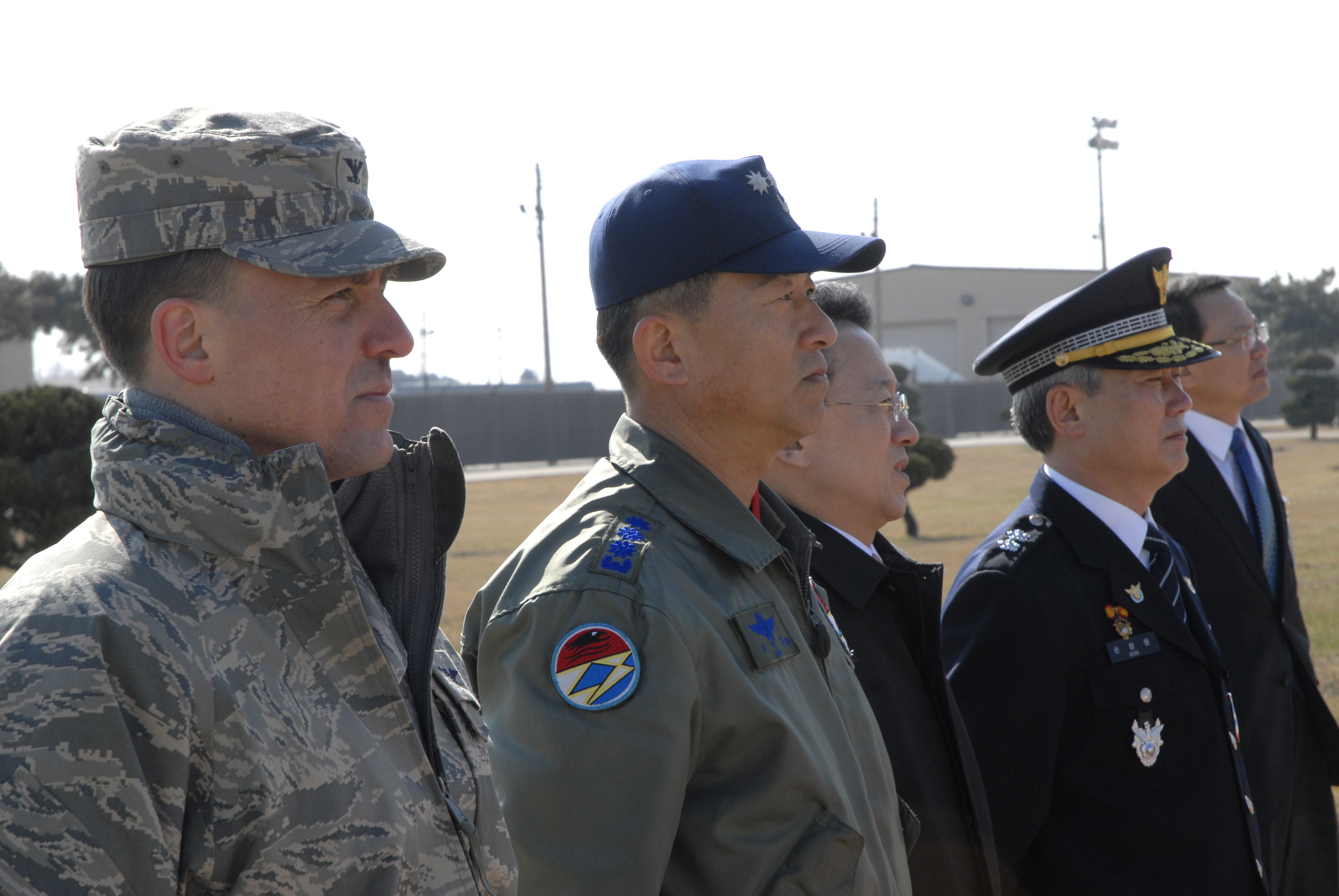 KUNSAN AIR BASE, Republic of Korea -- Col. Robert Givens, commander of the 8th Fighter Wing, Col. Choi, Jae Hun, commander of the 38th Fighter Group, Mr. Wan-ju Kim, Governor of Jeonbuk Province and Mr. Son, Chang Wan, chief of Jeonbuk Provincial Police Agency, await the arrival of Mr. Un-chan Chung, Prime Minister of South Korea, during his visit here March 18. The prime minister toured the Gunsan area with the mayor and governor.